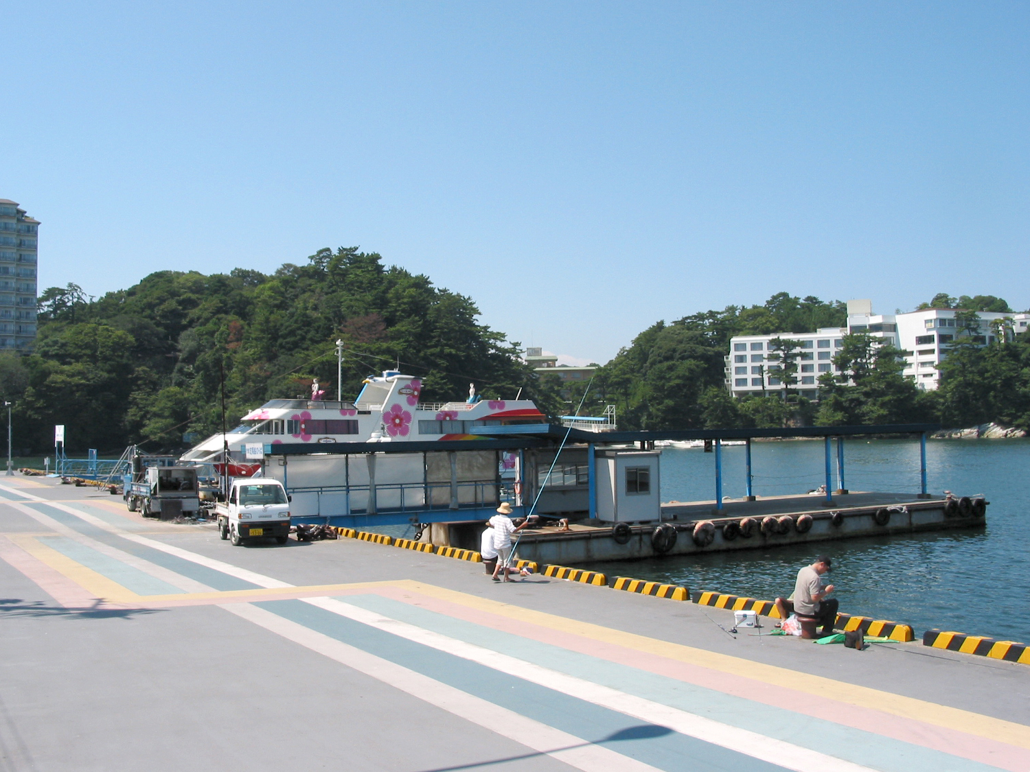 Satahama Pier of the Toba port 鳥羽港佐田浜桟橋 三重県鳥羽市にて撮影